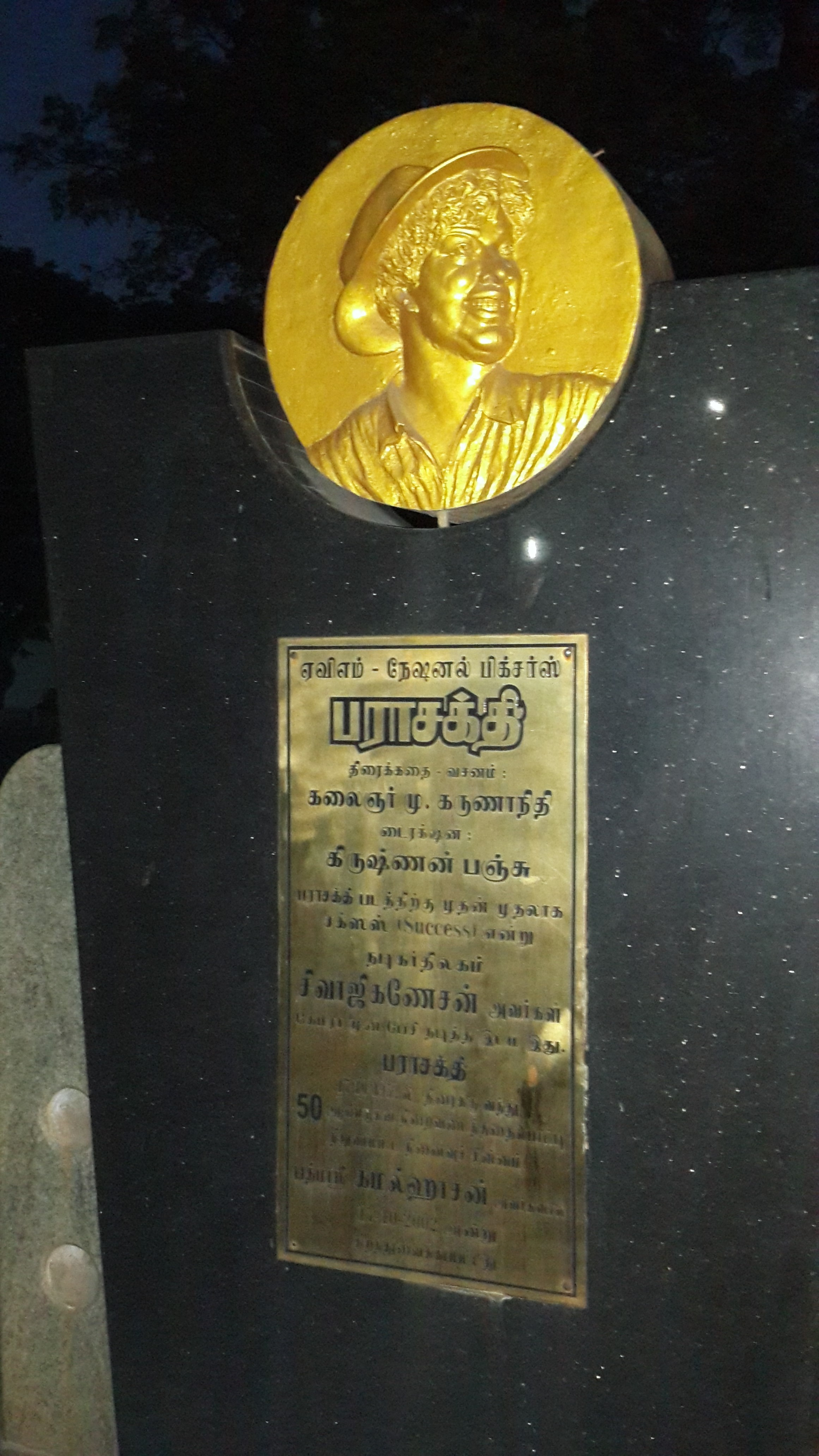 A memorial of Tamil actor Sivaji Ganesan at AVM Studios, photographed by me.